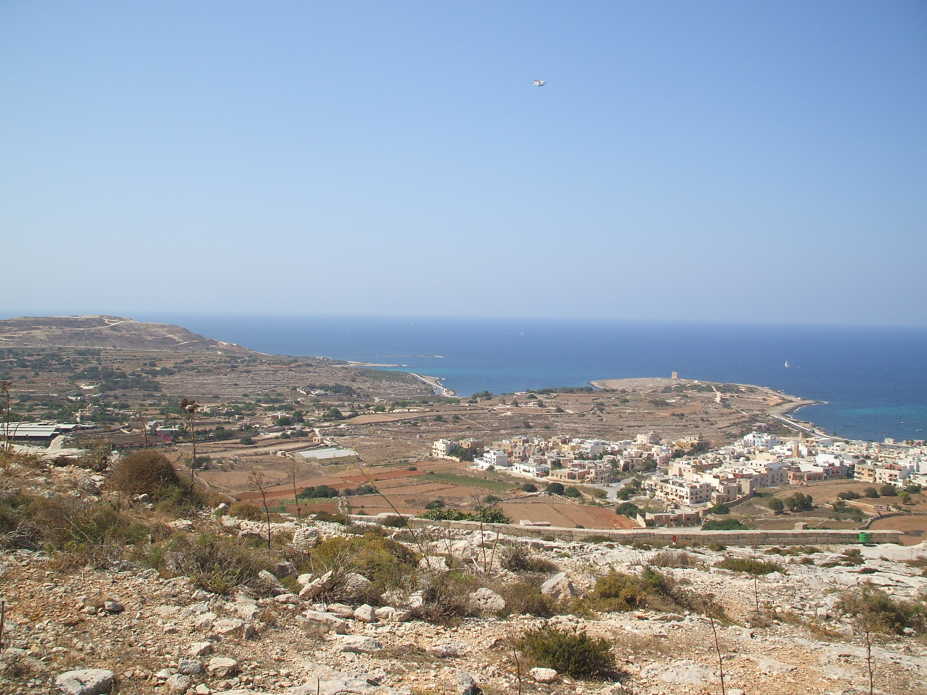 One of the two highest points in Malta